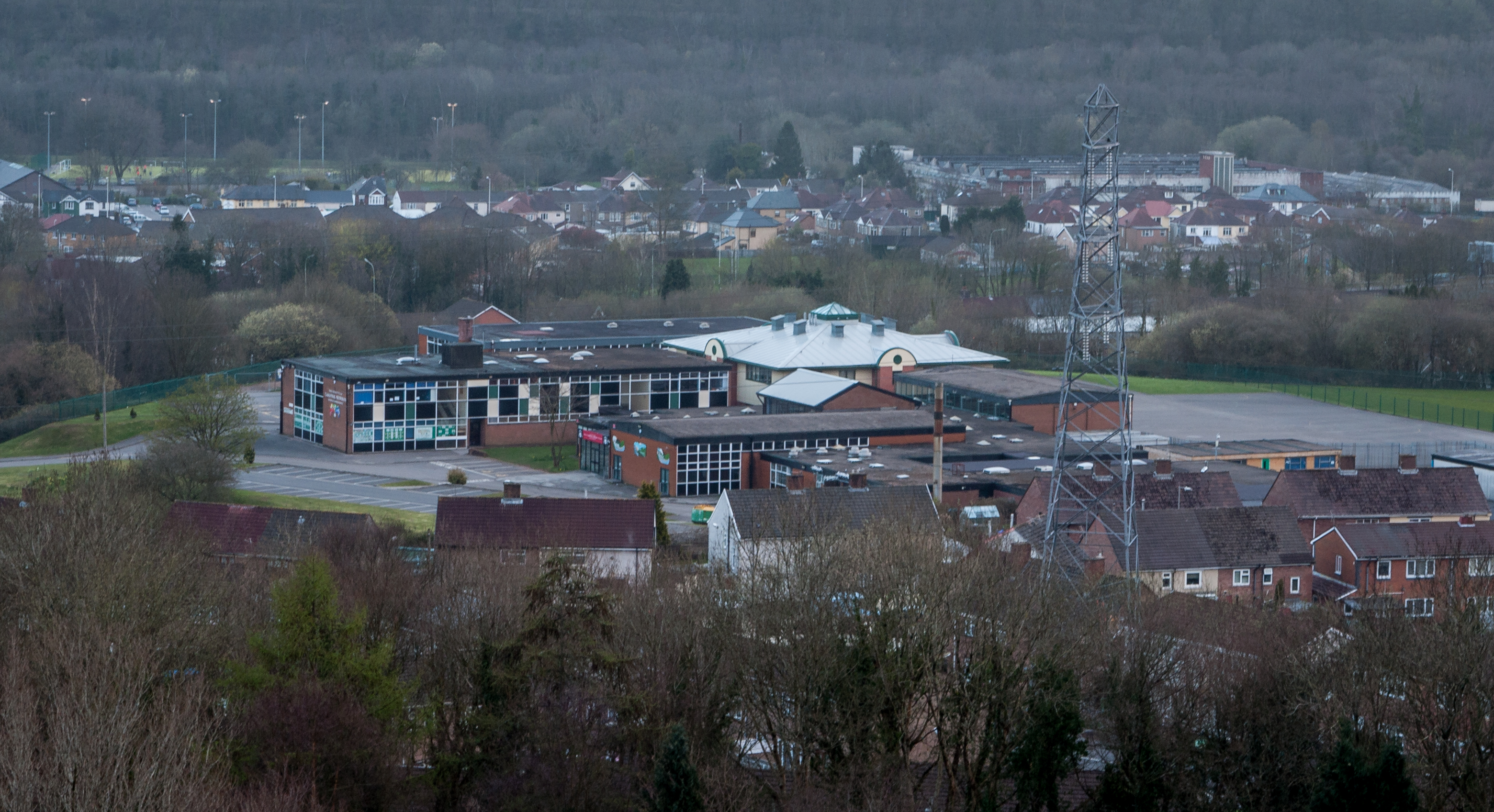 The Cardinal Newman Roman Catholic School in Rhydyfelin, south Wales, as seen from the hill below Eglwysilan.